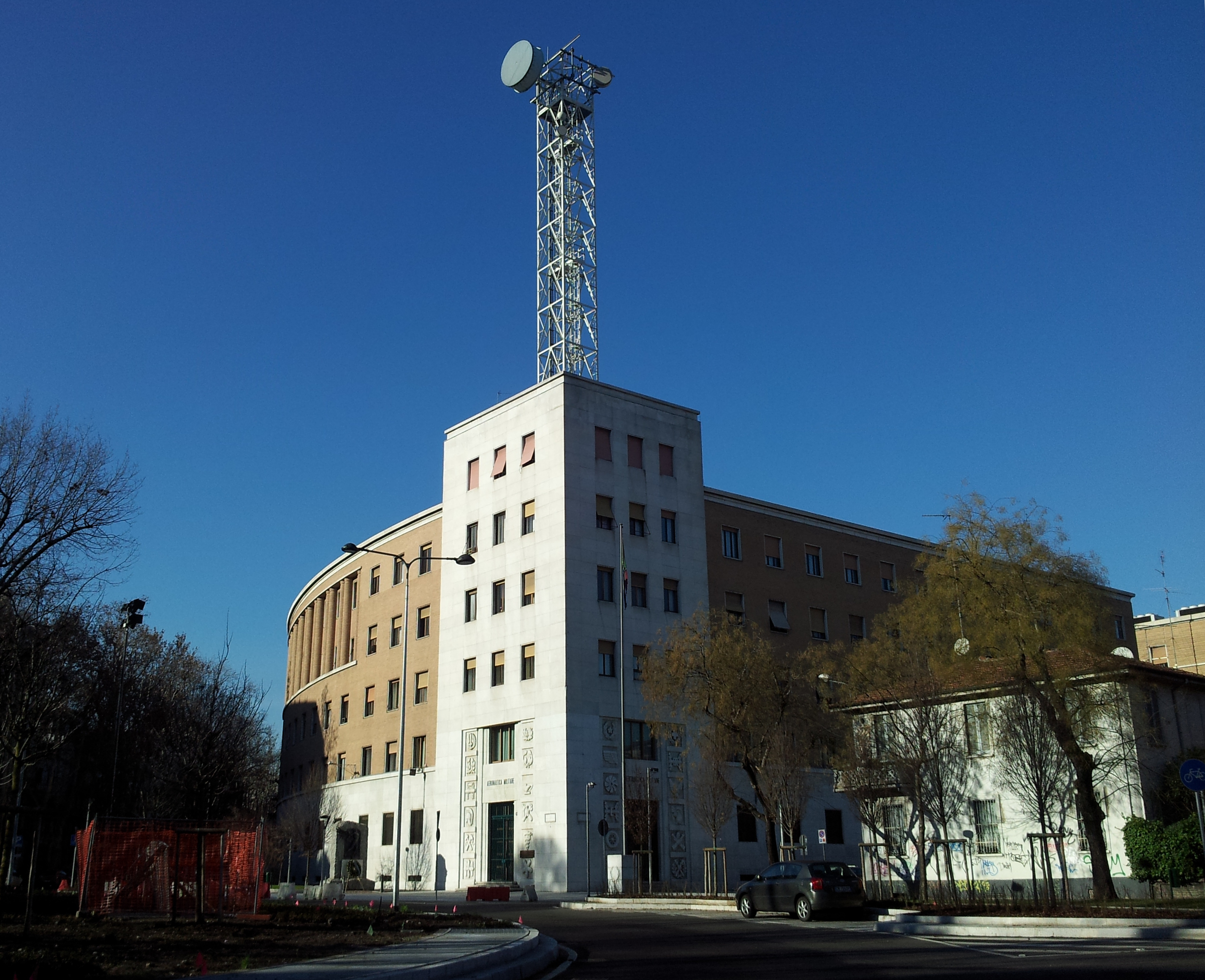 Headquarters of the 1st Regional Command of the Italian Air Force in Milan, Italy.